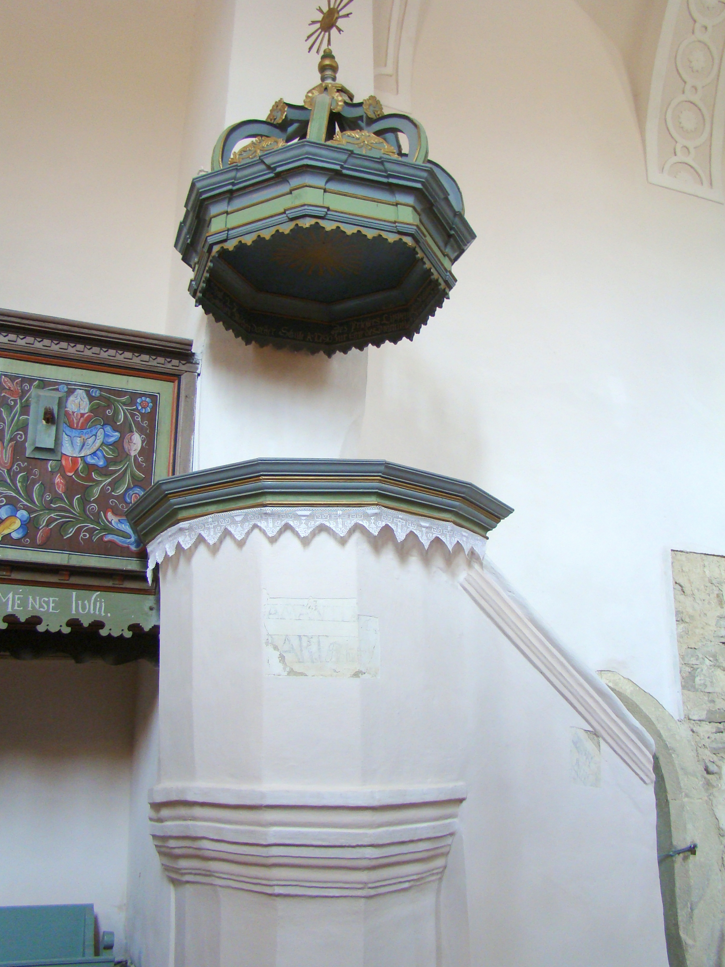 Fortified church in Meșendorf, Brașov County, Romania